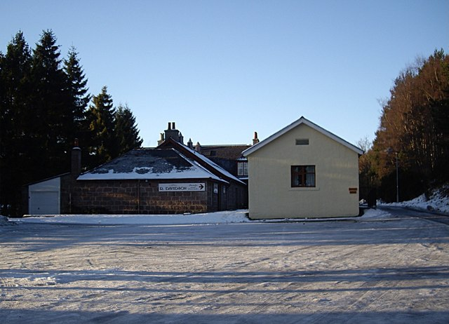 Painter & Decorator's workshop Viewed from Banchory Golf Club car park.